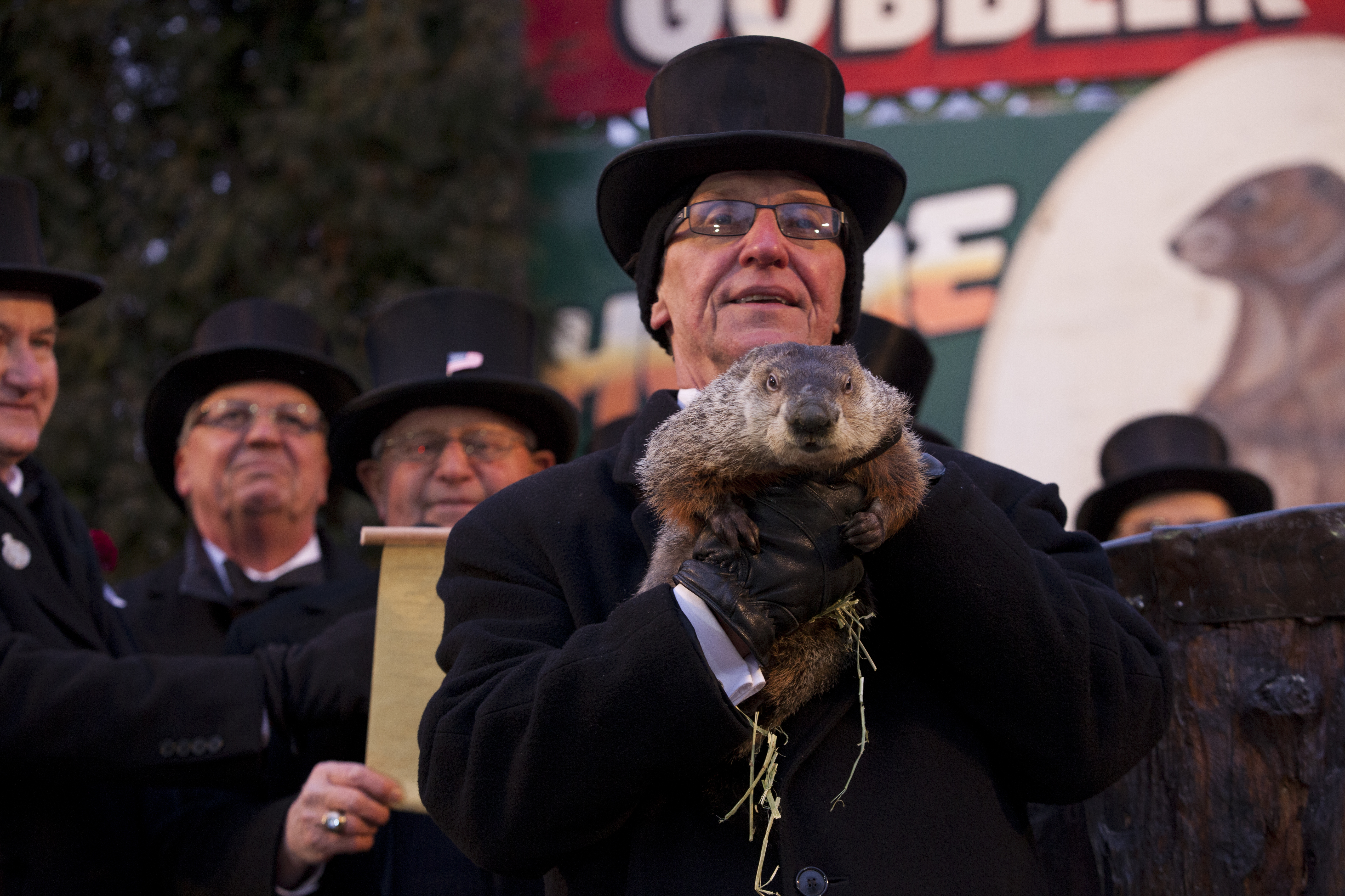 Groundhog Day from Gobbler's Knob in Punxsutawney, Pennsylvania